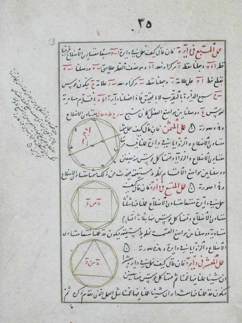 The page 35 of the "Book on Those Geometric Constructions Which Are Necessary for a Craftsman" (كتاب فيما یحتاج إليه الصانع من أعمال الهندسة Kitāb fīmā yaḥtāj ilayh al-ṣāniʿ min aʿmāl al-handasa)